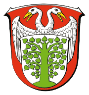 Coat of Arms of Linden